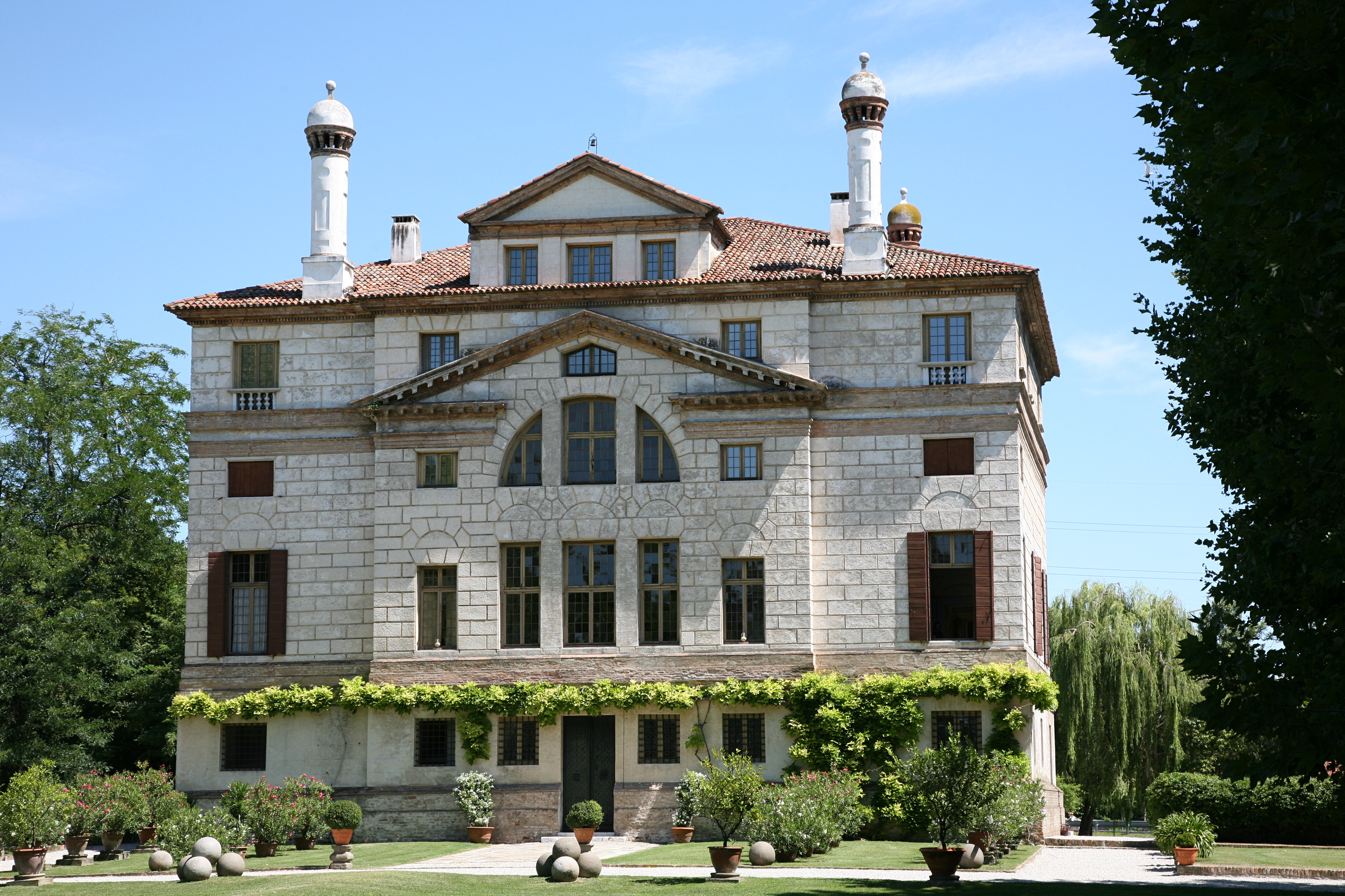 Villa Foscari, also called La Malcontenta. Villa near Venezia by Andrea Palladio.